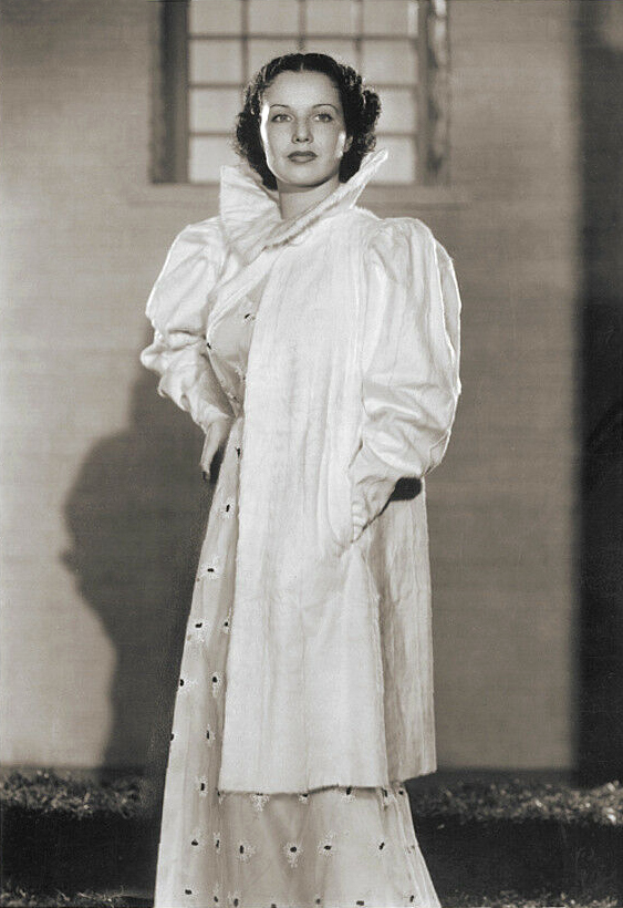 Publicity photo of June Travis